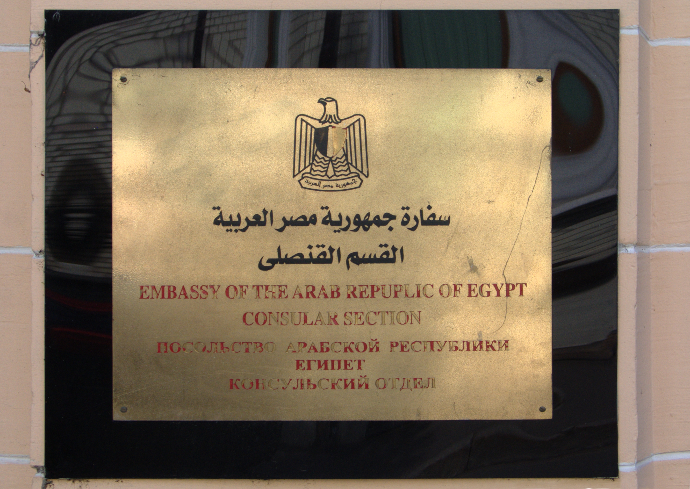 A plate on the Embassy of Egypt in Moscow (Kropotkinskiy side-street 12).